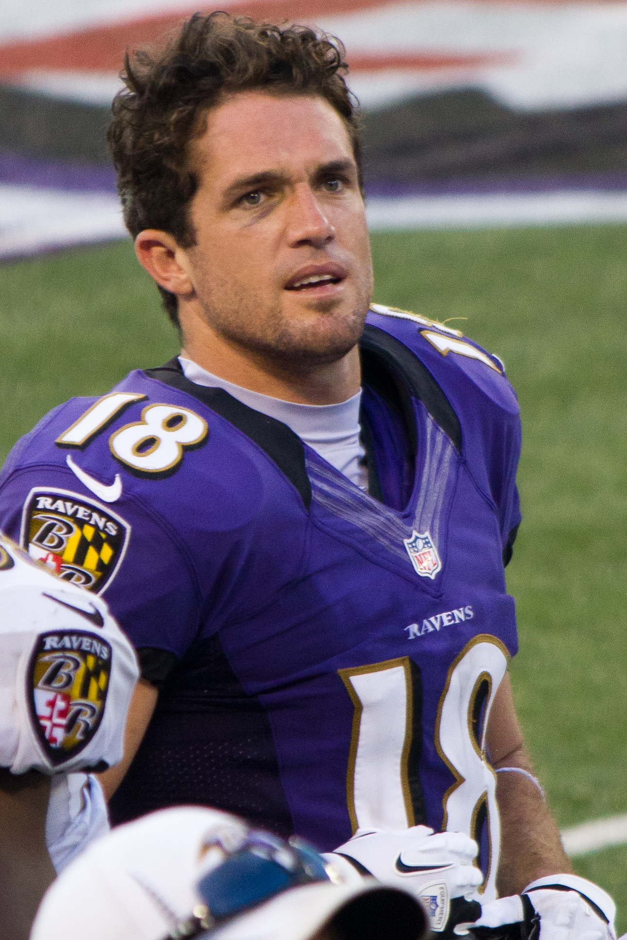 Logan Payne at M&T Bank Stadium 2011 Practice